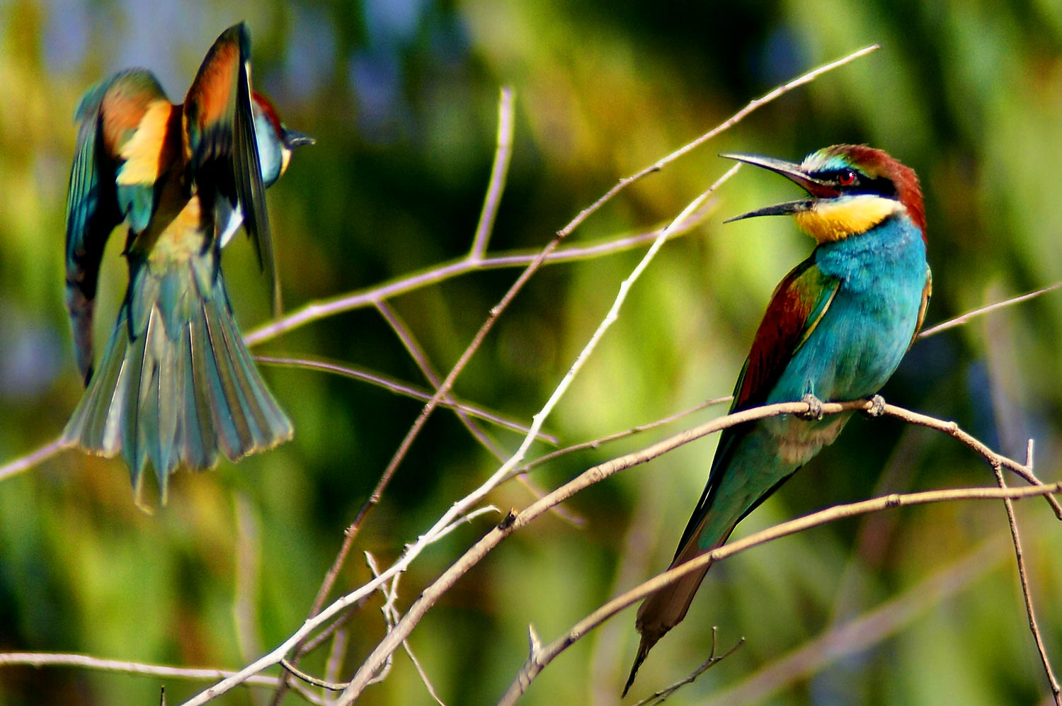 European Bee-eater (Merops apiaster).